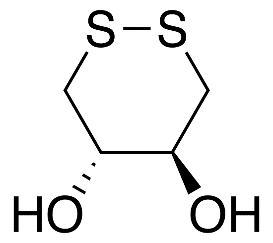 Skeletal structure of the oxidized (disulfide) form of (S,S)-dithiothreitol.